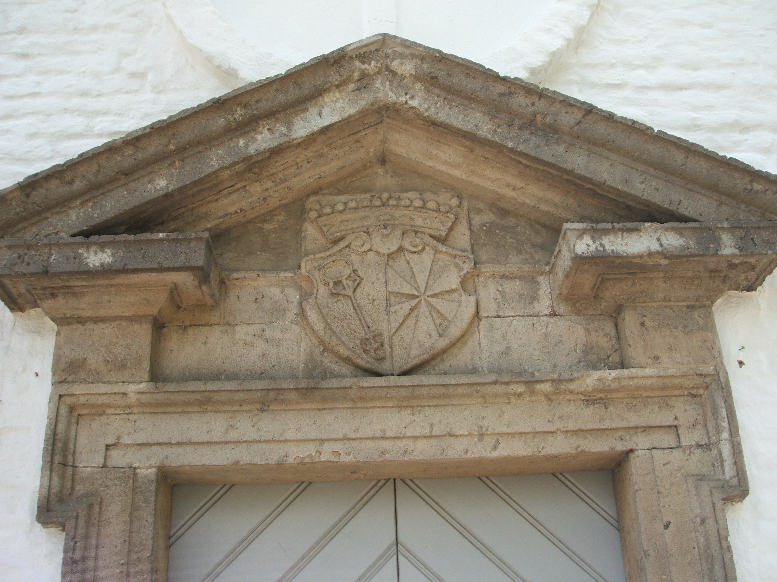 Hubertuskapelle (Düsseldorf-Angermund)